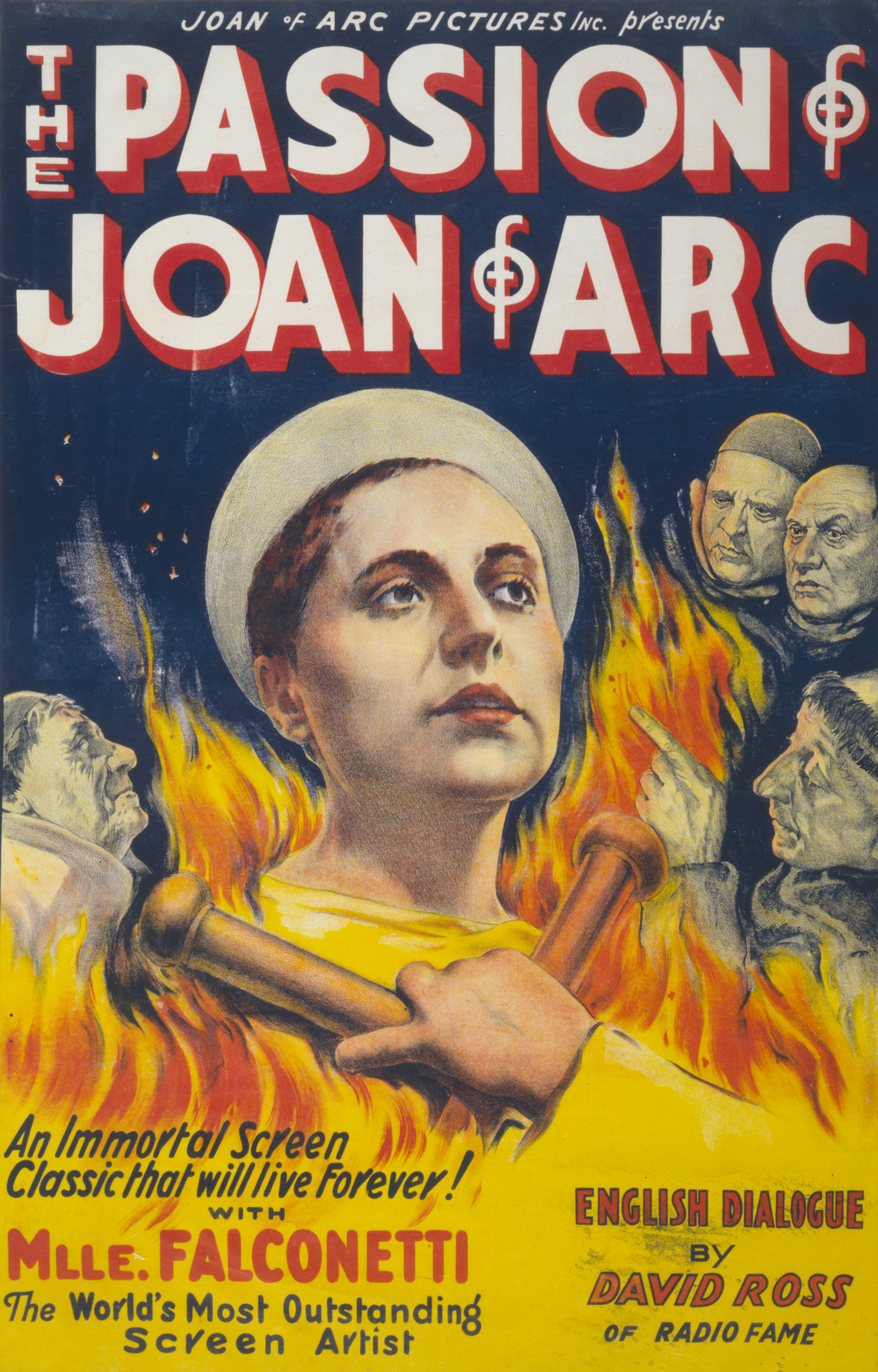 Motion picture poster for The Passion of Joan of Arc directed by Carl Theodor Dreyer, with Renée Jeanne Falconetti (pictured) and Antonin Artaud, produced in France in 1927 and first shown in Copenhagen in 1928. The poster consists of a painting and does not contain any stills from the French film.